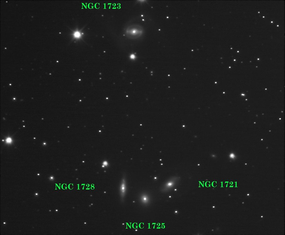 A small galaxy group in the Eridanus constellation separate from the Eridanus cluster. Obtained with permission from .